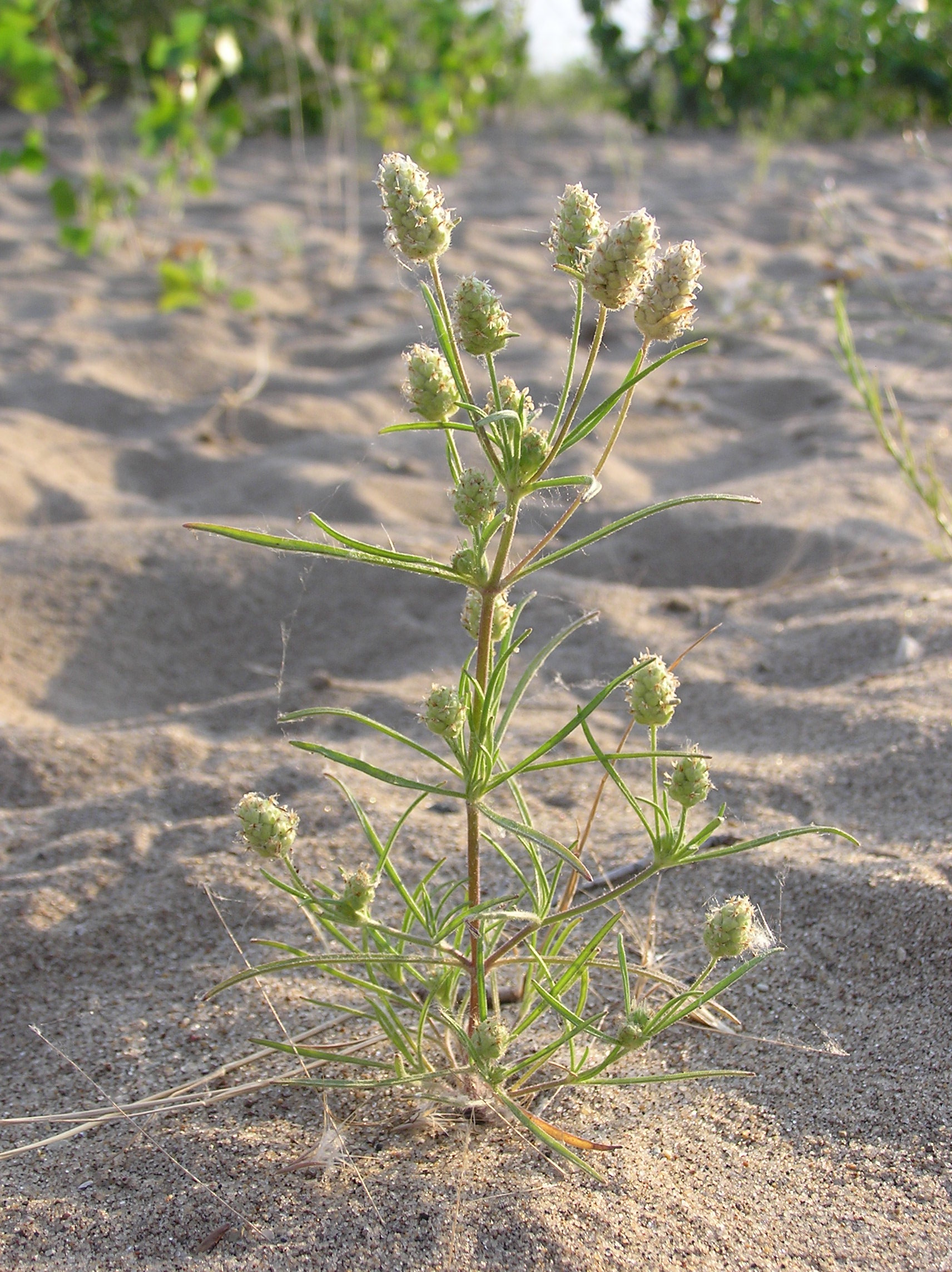 Branched Plantain (Plantago arenaria Waldst. & Kit.) on a sandy beach. Vicinity of Saratov city, Russia.